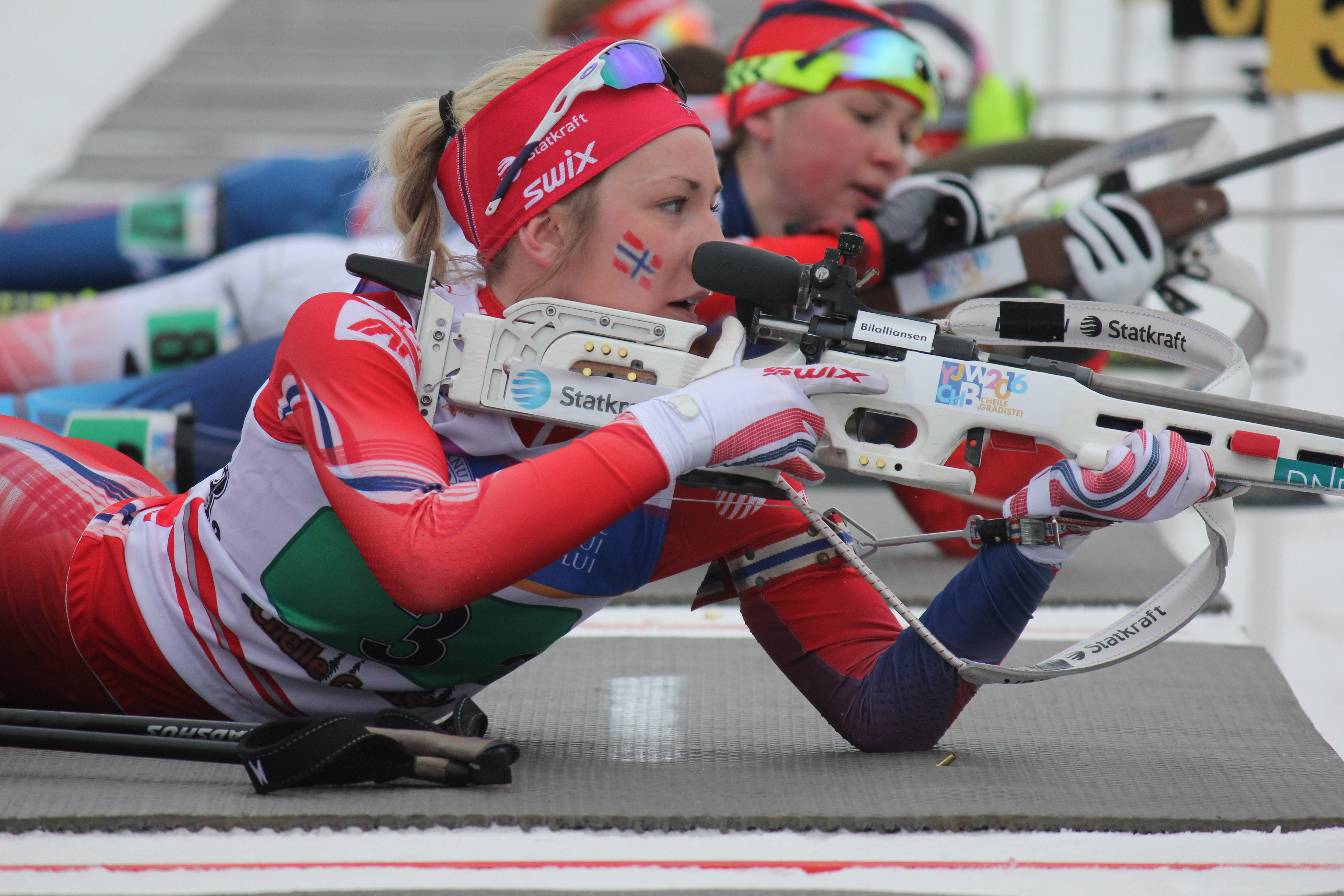 Emilie Ågheim Kalkenberg (3/Norway) and Kamila Zuk (8/Poland) at the Biathlon Junior World Championships 2016, winning two medals in the youth class. Here Youth Relay race.